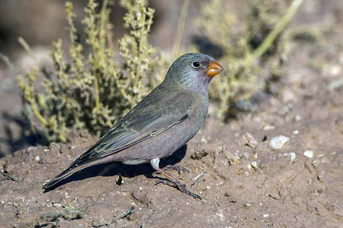 Trumpeter Finch - Morocco_07_2921